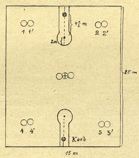 Korbball field around 1920. J. Marshall: Die wichtigsten deutschen Ballspiele. Verlagsbuchhandlung Richard Ehlert, Leipzig, ca. 1920, p. 51.